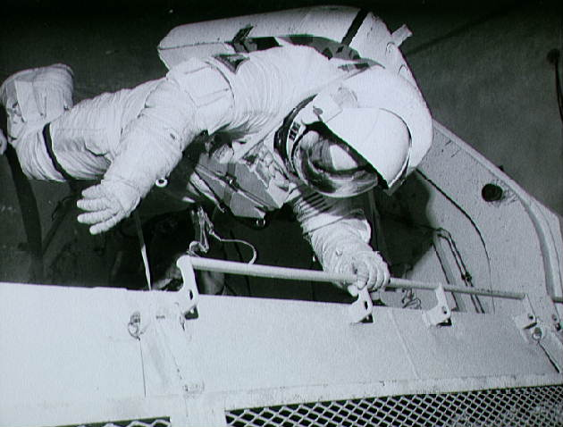 Underwater views of STS-5 crewmen Lenoir and Allen during EVA training. In this view, Mission Specialist/Astronaut Joseph P. Allen is in the foreground and Mission Specialist/Astronaut William B. Lenoir is at the top of the photography. Both men are wearing extravehicular mobility unit (EMU) space suits and are weighted down to achieve neutral buoyancy in the 25-ft. deep pool. The background is a full-scale mockup of the Space Shuttle's cargo bay area.